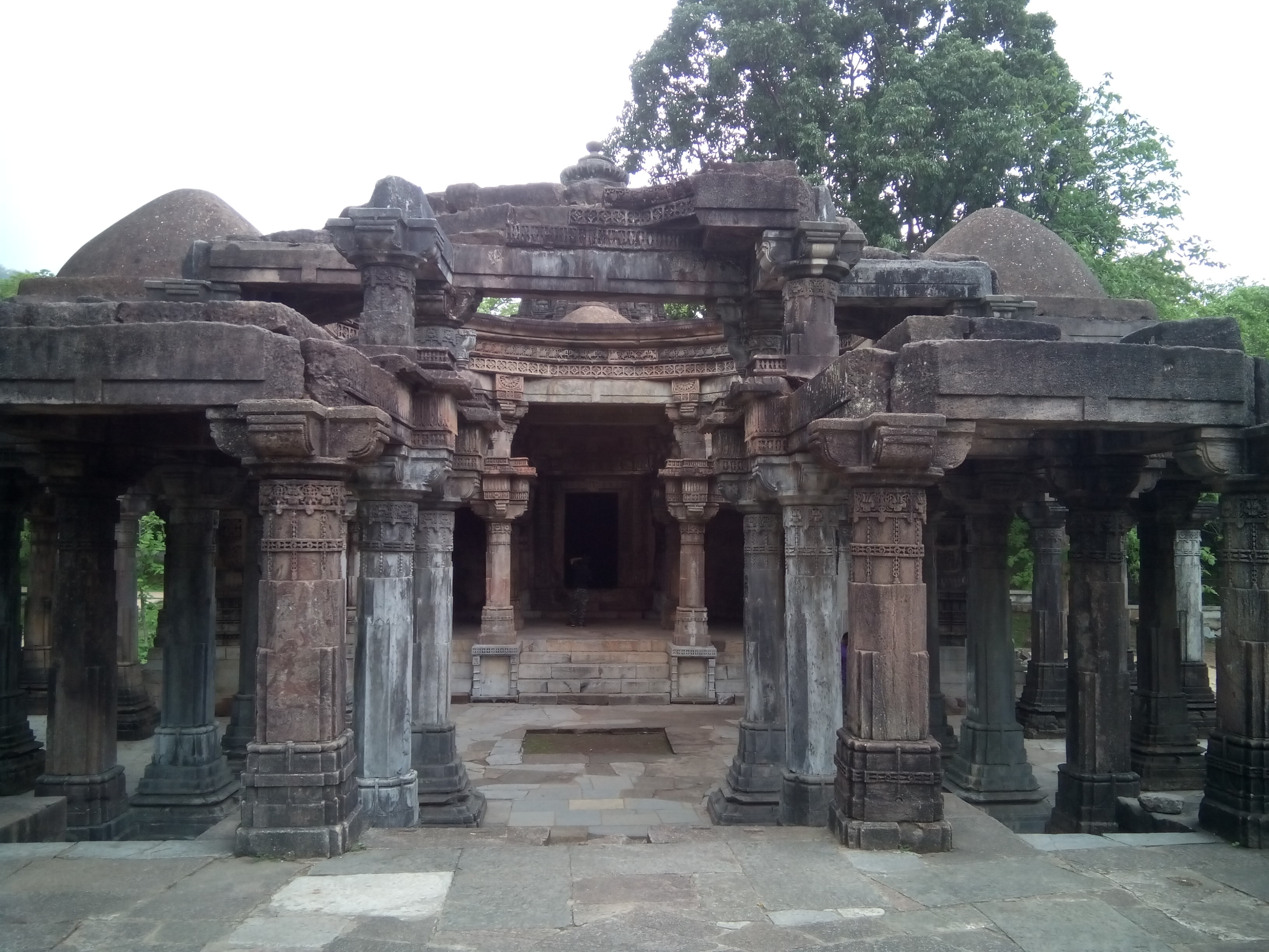 ગુજરાતી: Jain Temple at Polo Forest